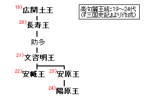 the geneology of Goguryeo( 19th King ~ 24th King) / 高句麗王系図(19代～24代)